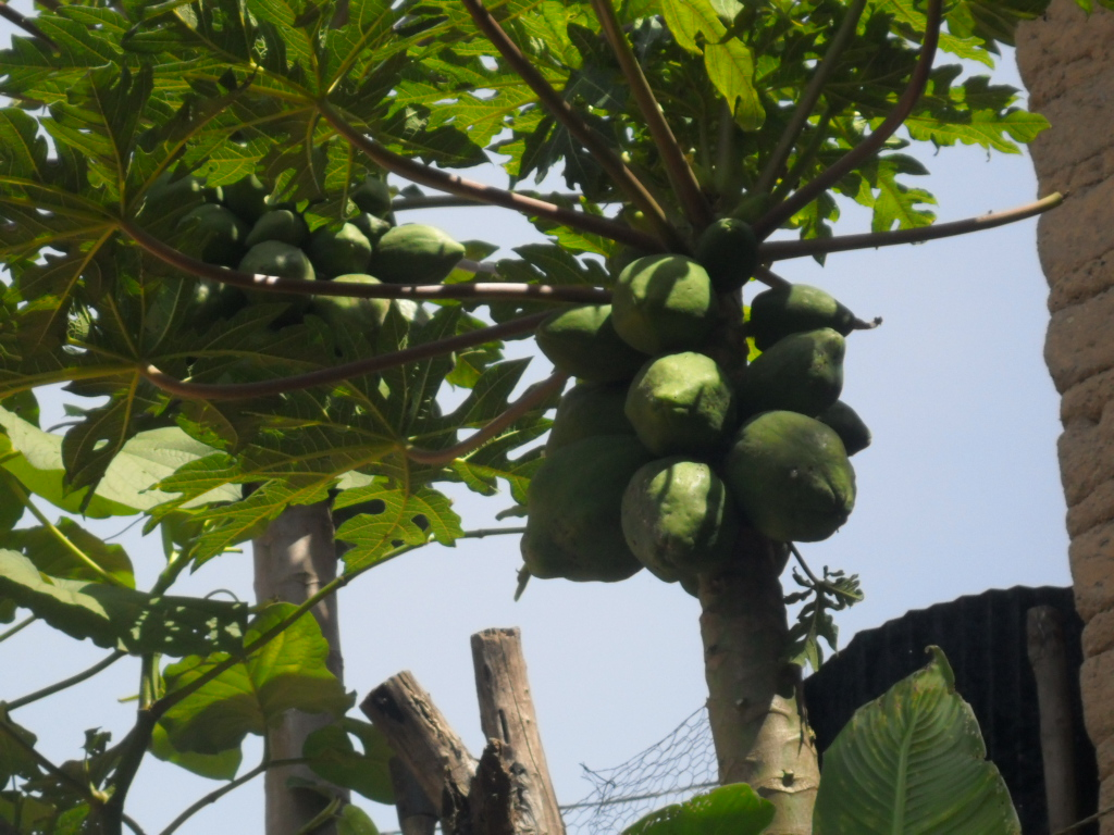 papa en cerro moneda